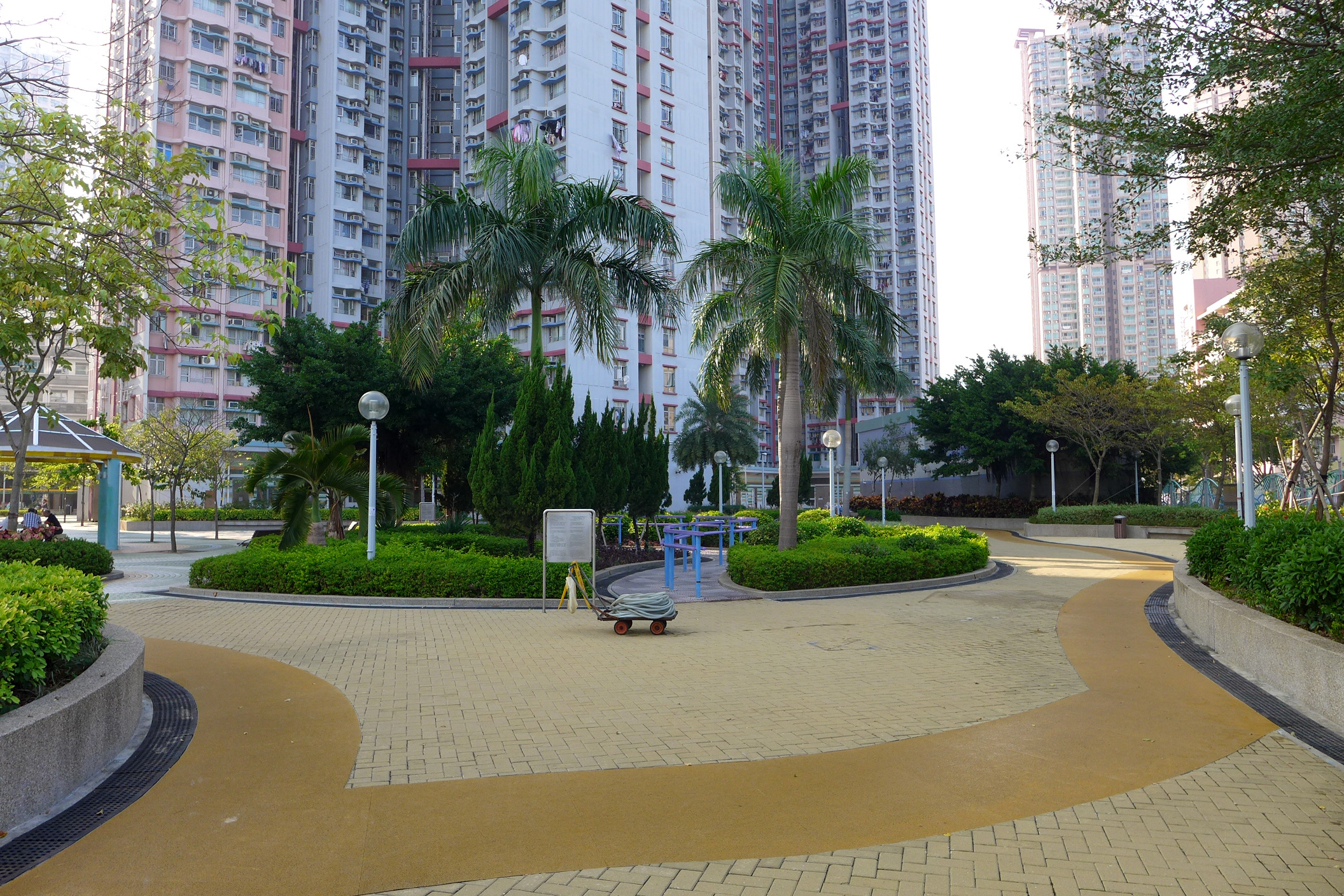 Tin Ching Estate Phase 2